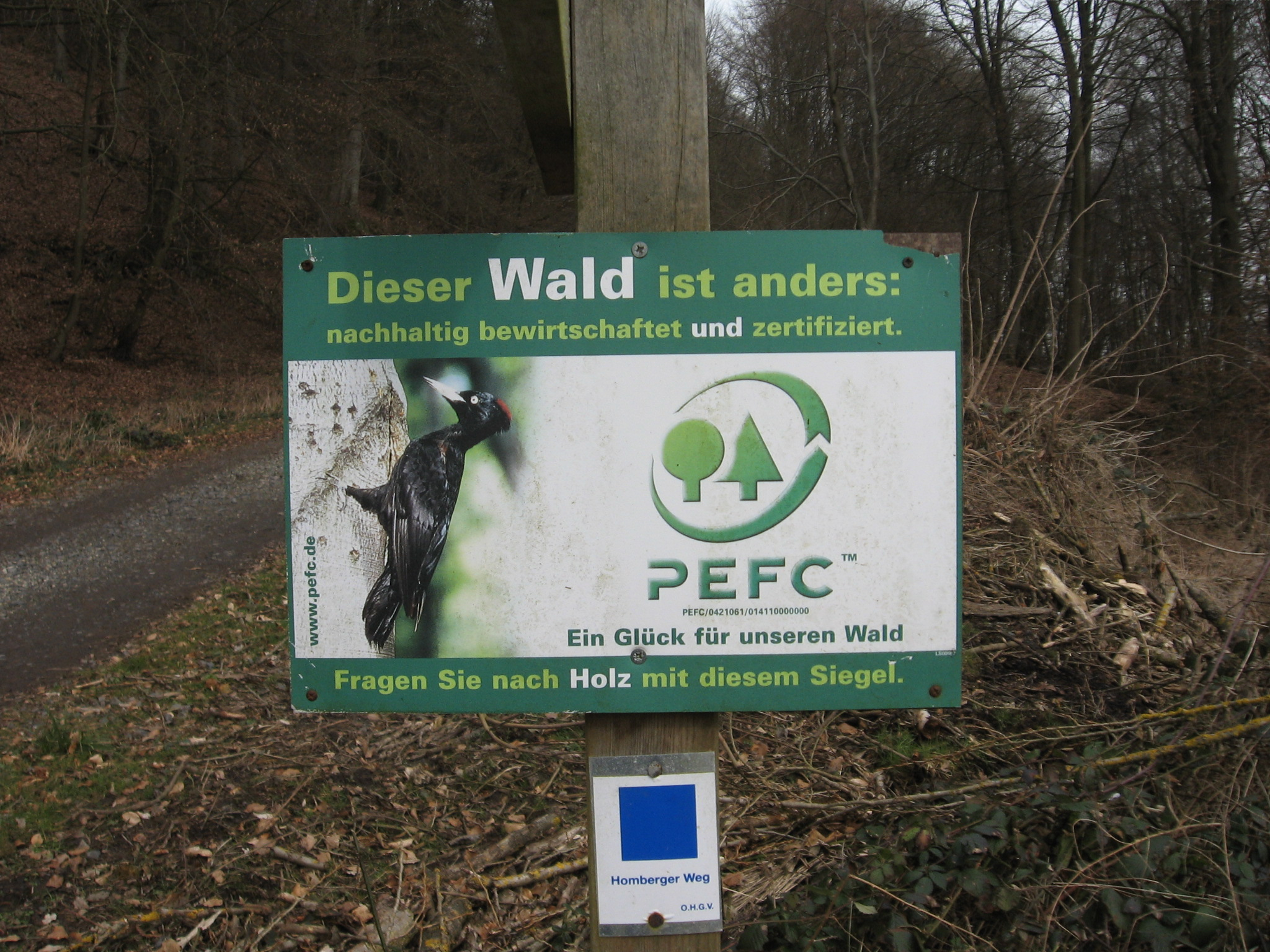 Shield of the Programme for the Endorsement of Forest Certification Schemes (PEFC) and the trail Homberger way of Oberhessischer Mountain Club (OHGV) next to the Elisabethenbrunnen at Marburg-Schröck.